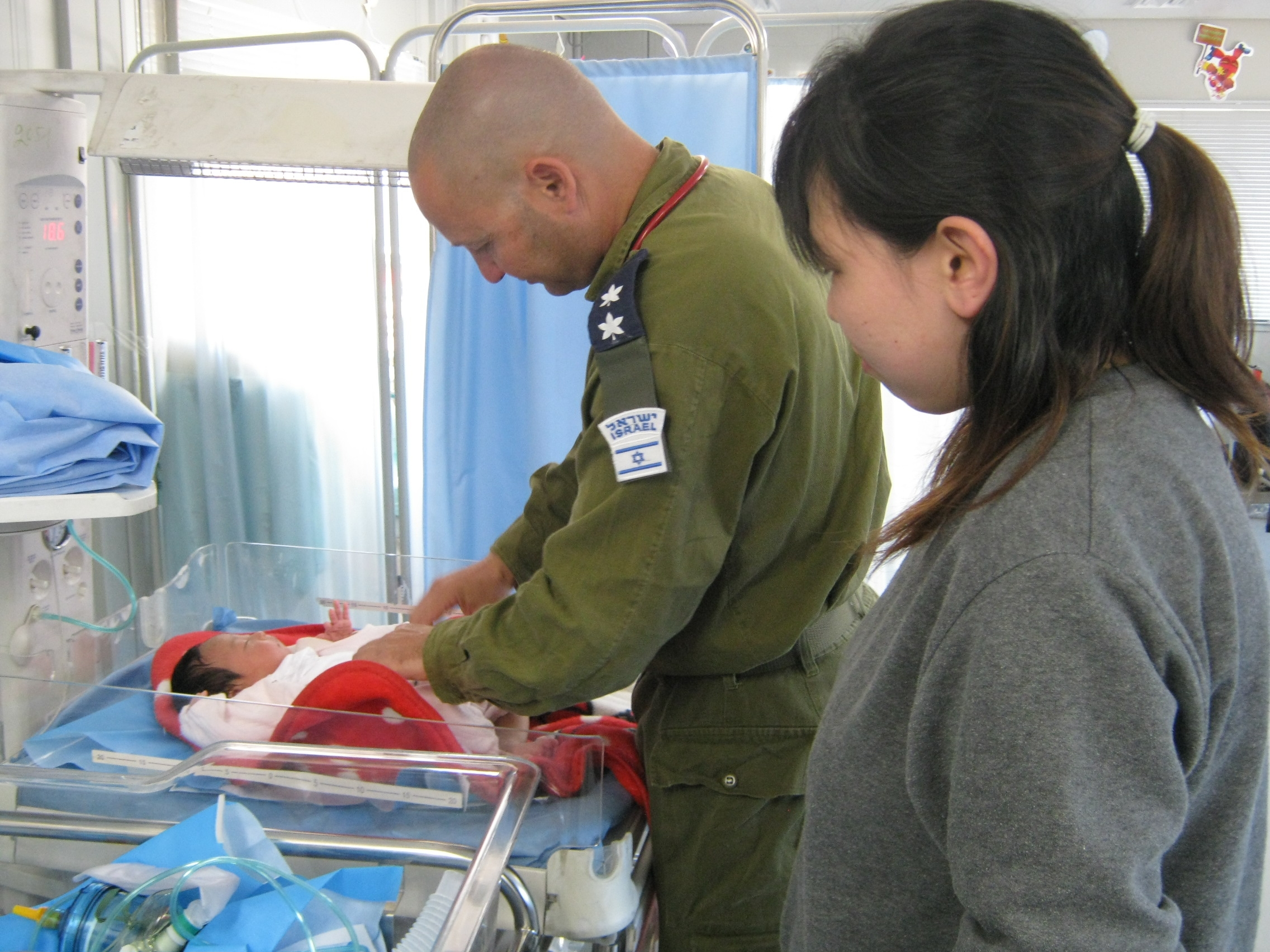 April 7, 2011 Yuki Satu, 24, a new mother staying at an aid population center in Minamisanriku, gave birth to a girl six weeks ago by a Cesarean section. Due to the tsunami, Yuki had been unable to go to a gynecologist for a follow-up examination for the six weeks since she had given birth. When Yuki heard about the Israeli medical aid delegation from friends in the population center and from media reports, she and her baby showed up at the IDF medical clinic. She was examined by Lt. Col. Mishe Pincrat, a gynecologist with the IDF delegation who found Yuki to be in good and stable condition. After which, the baby was examined by Lt. Col. Dr. Amit Assa, a pediatrician from the delegation who concluded the baby to be healthy and in a general good condition. Yuki, who deeply thanked the Israeli staff, and her baby were accompanied throughout the medical examination by Mora Tomoku, a local midwife who looks after all the pregnant women in the Minamisanriku area. Mora checks up on the women by visiting each individual woman's home along with the gynecologist and midwife of the IDF aid delegation. Since the arriving to Japan, the delegation doctors have treated 18 new mothers in follow-up examinations. Pictured: Lt. Col. Dr.Amit Assa checking the baby, and the baby's mother, Yuki.